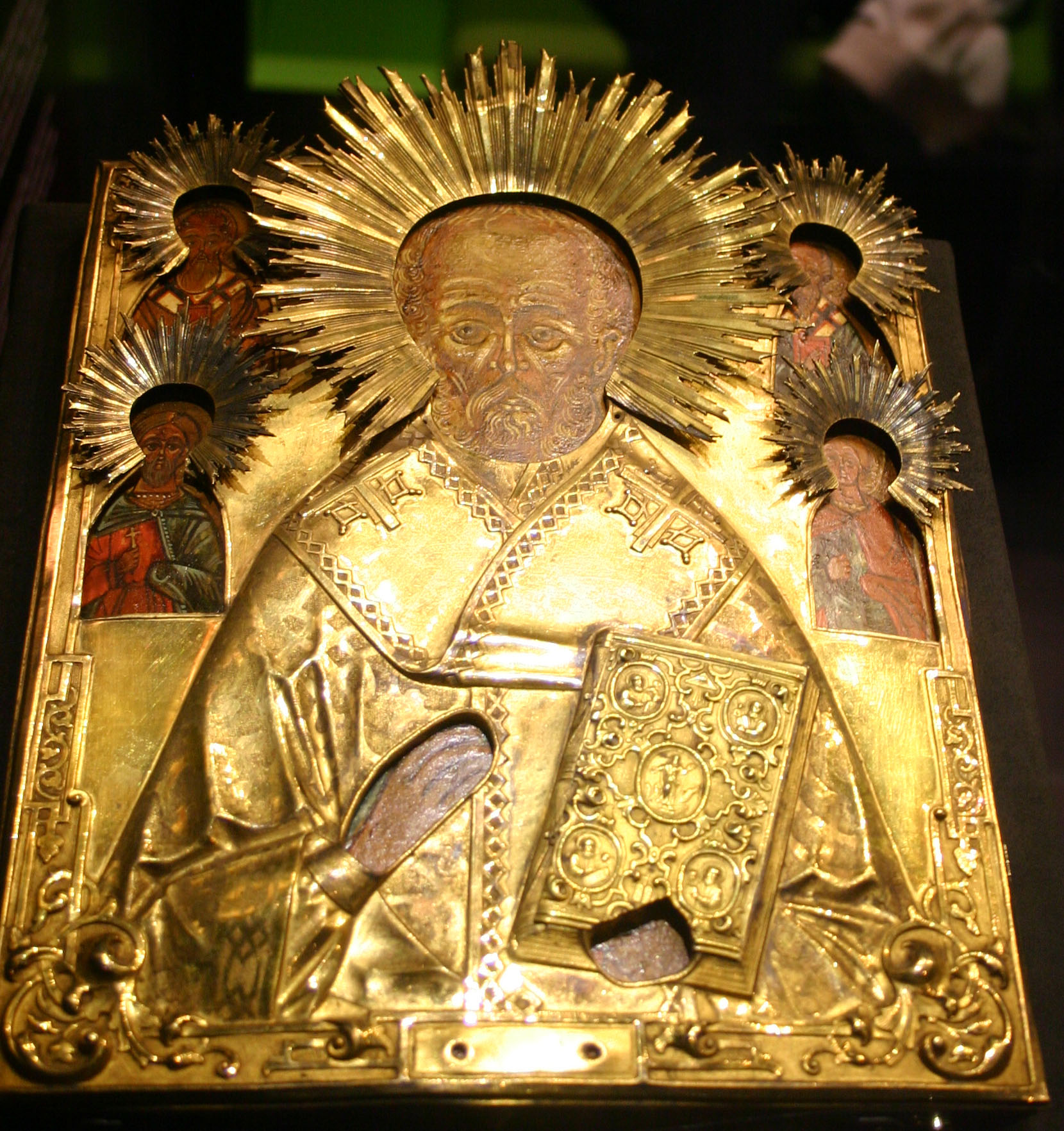 Icon of St. Nicholas